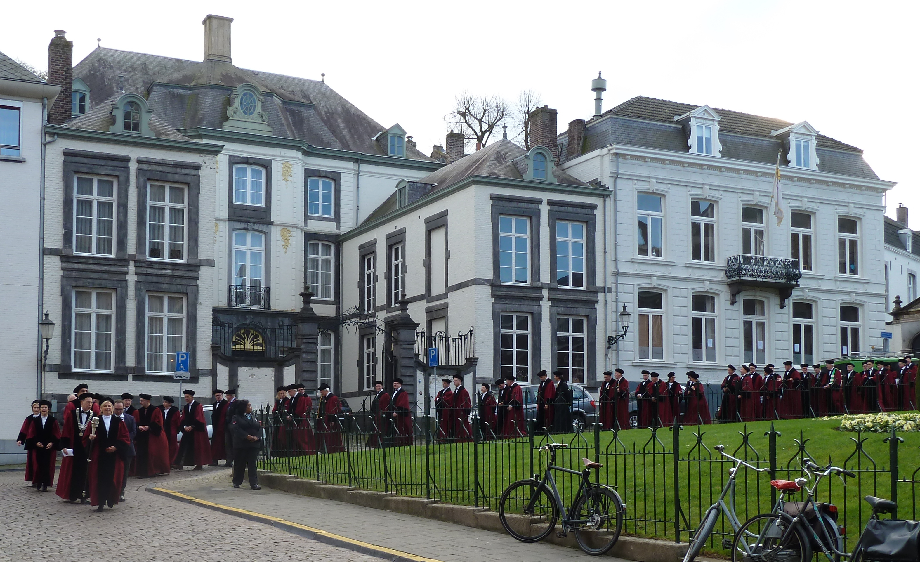 39th Dies Natalis of Maastricht University